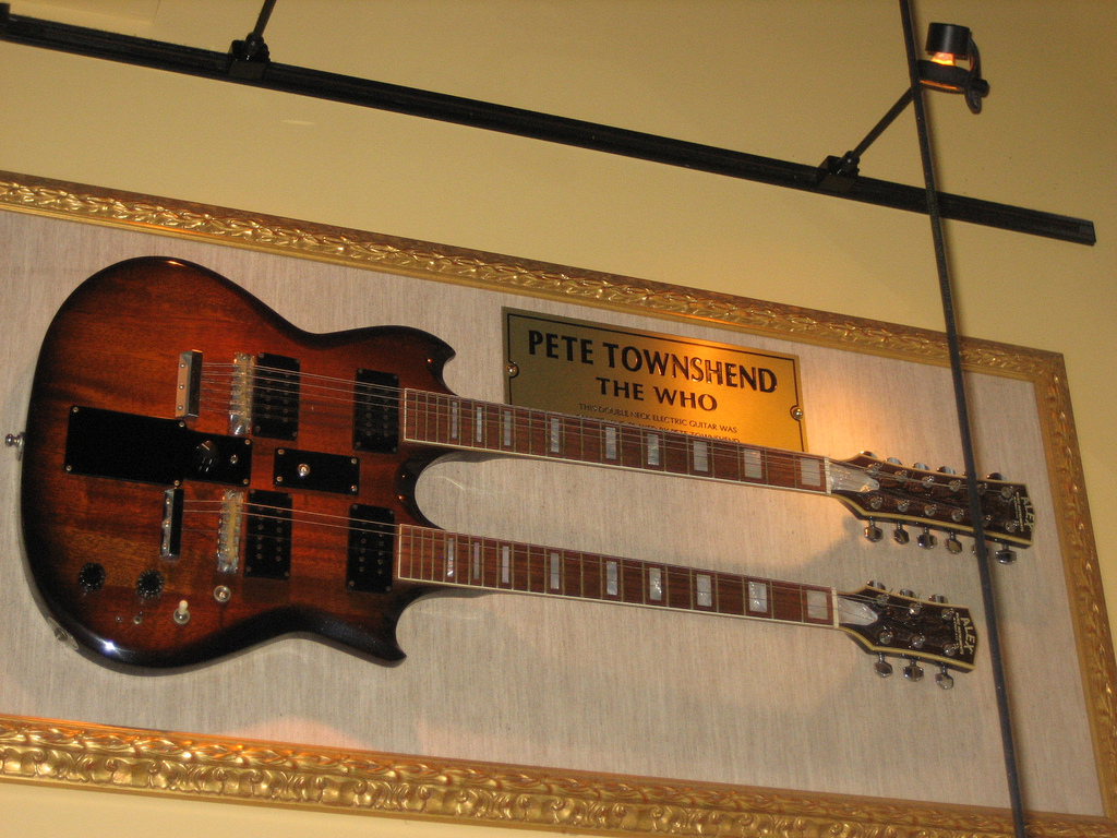 Guitar of Pete Townshend (The Who). Picture taken in Hard Rock Cafe, San Francisco, California.